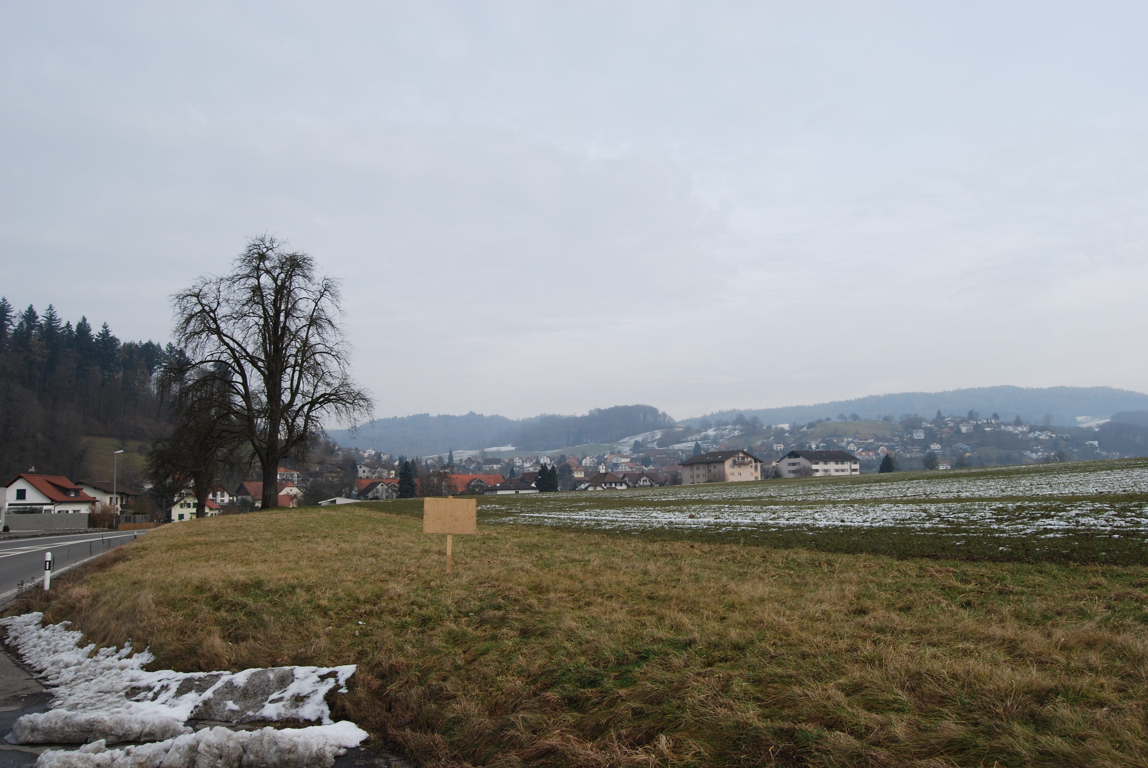 Egliswil, canton of Aargau, SwitzerlandEsperanto: Egliswil, Kantono Argovio, Svislando